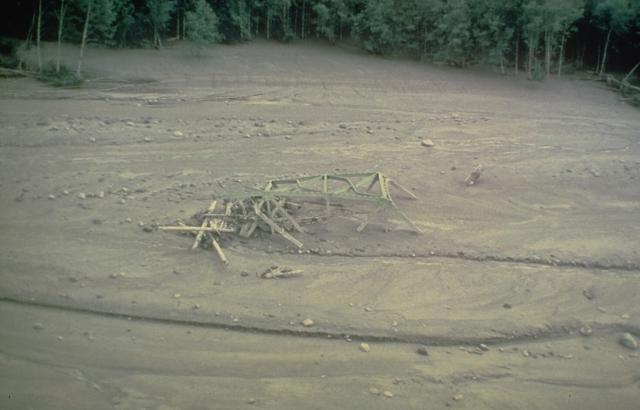 The twisted girders of a highway bridge lie entombed in mudflow deposits from Mount St. Helens. This May 18, 1980 mudflow was produced by dewatering of the debris-avalanche deposit in the North Fork of the Toutle River and traveled as far as the Columbia River, decreasing the depth of the navigational channel from 11 meters to 4 meters.